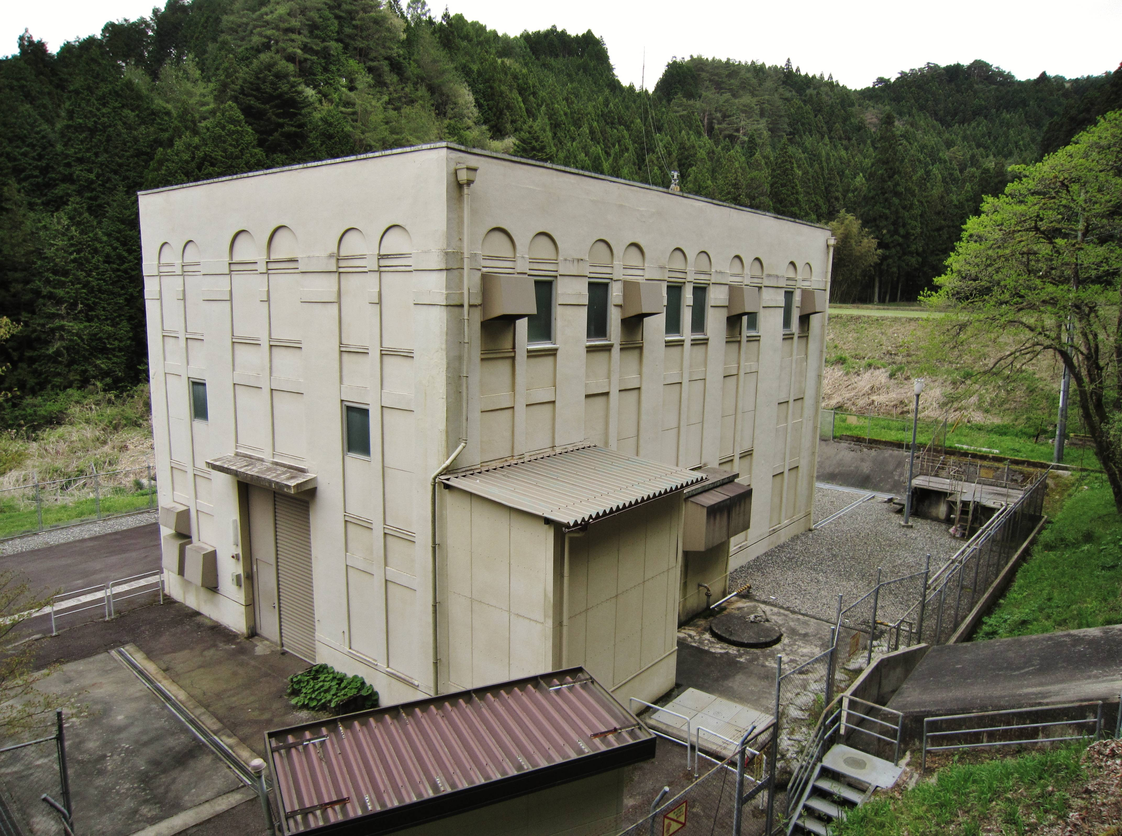 Kuroda power station.